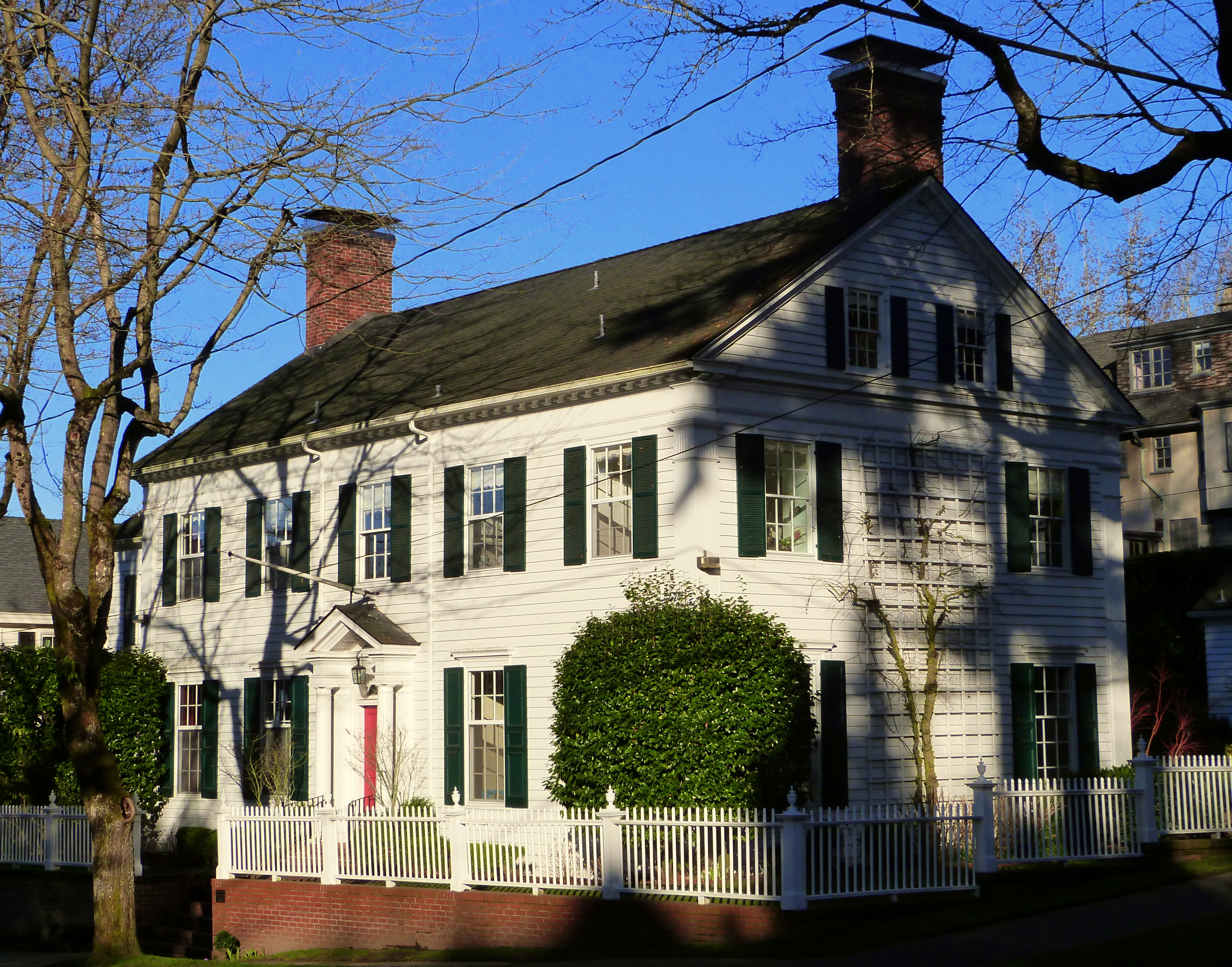 The historic Edward D. Kingsley House (built 1926), located at 2132 Southwest Montgomery Drive in Portland, Oregon, United States, is listed on the US National Register of Historic Places.